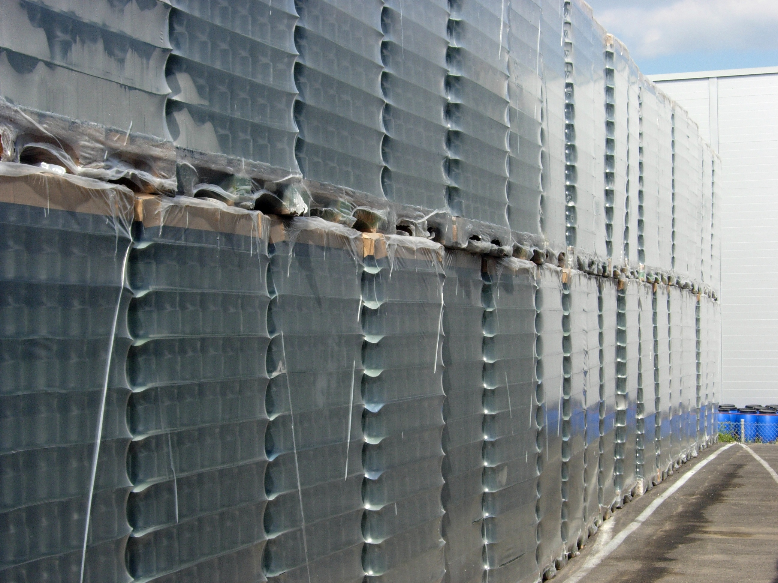 580 ml glass bottles. One pallet carries 13*13*13, 2097, bottles each weighing about 300 g. Altogether one pallet has about 600 kg of glass and here you have two of them one on top of the other. These bottles eventually came to contain cucumber. This glass was made either in Denmark or Norway.